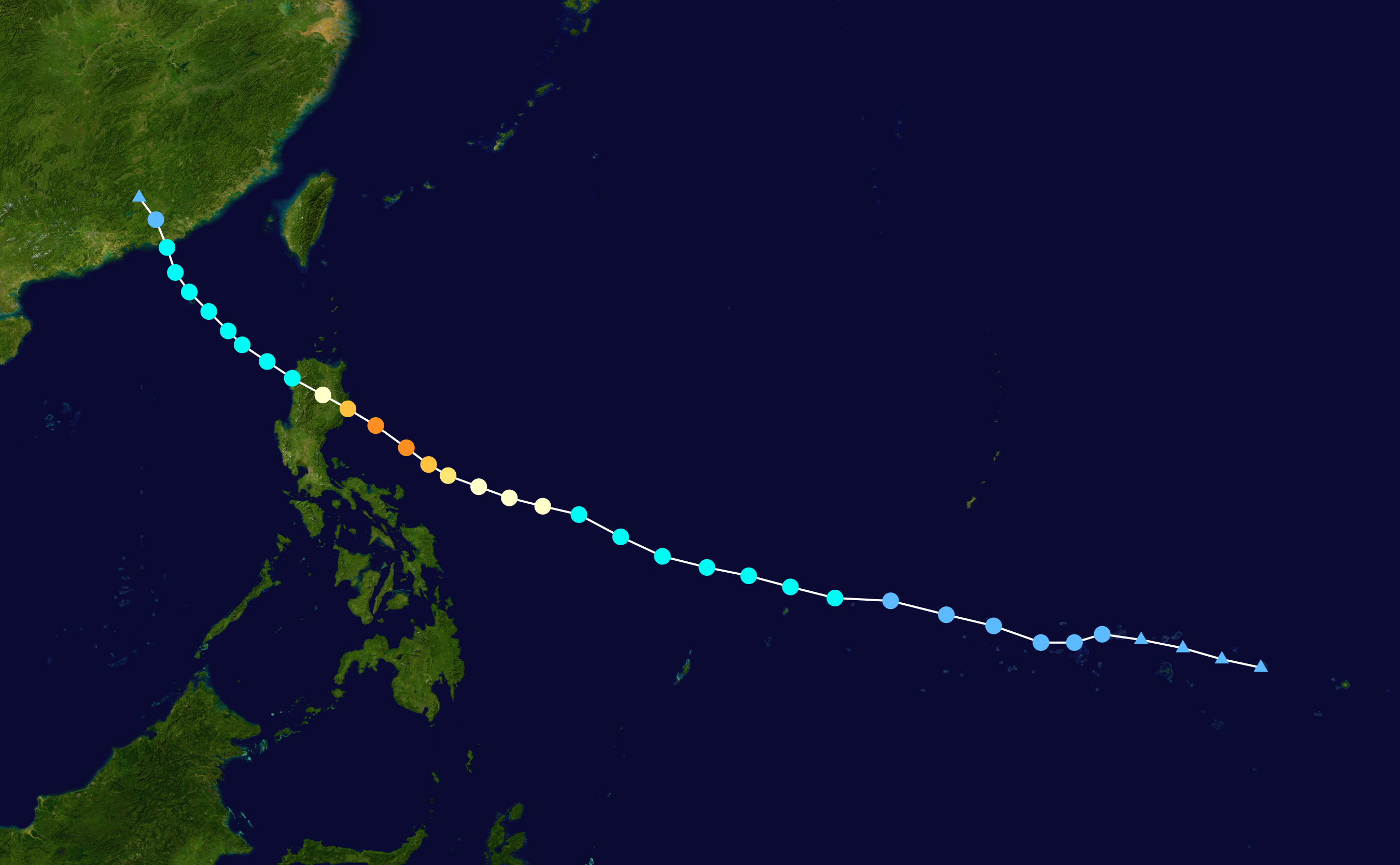 Typhoon Kim 1980 track. Uses the color scheme from the Saffir-Simpson Hurricane Scale.